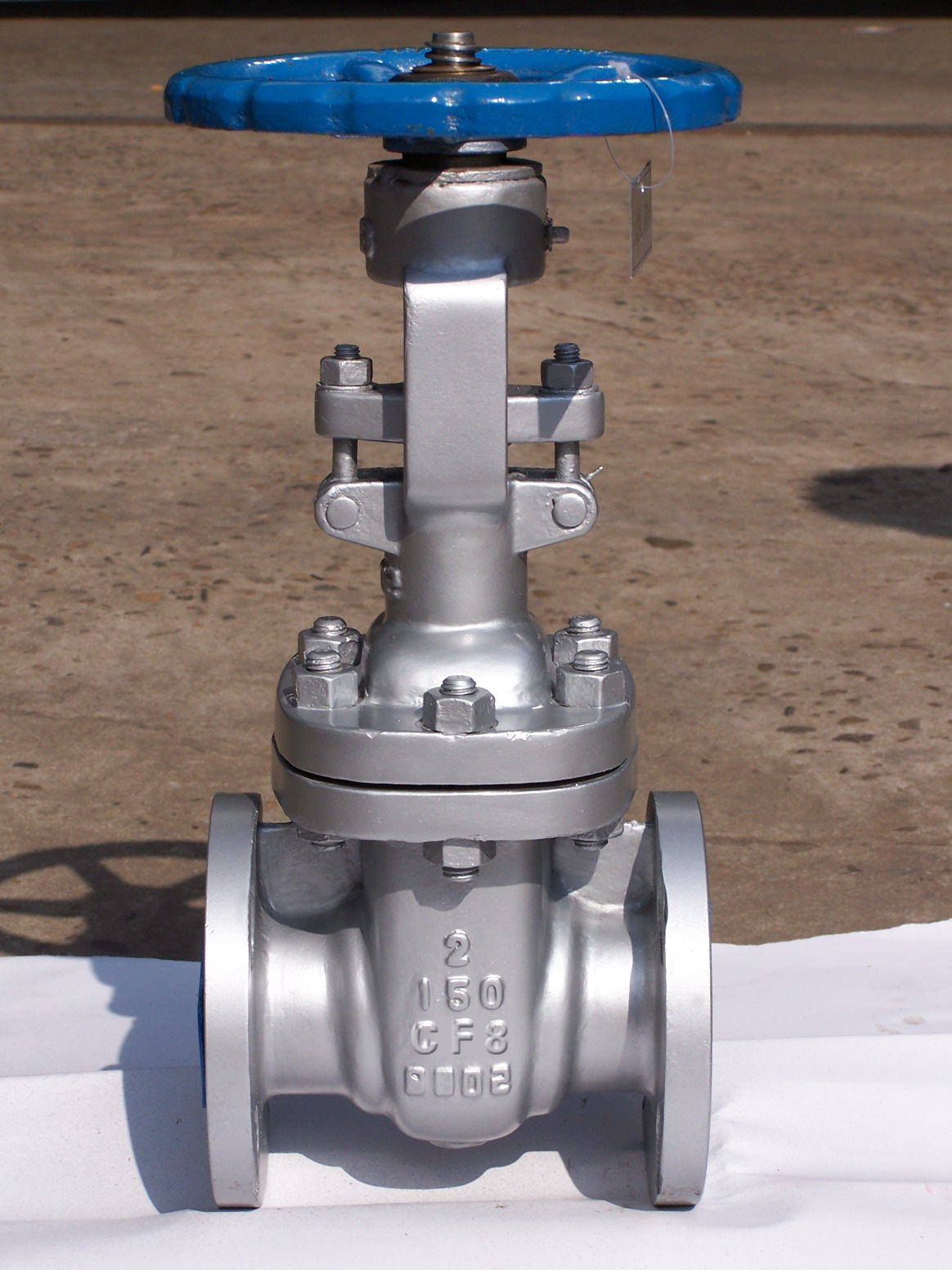 Stainless steel gate valve, 2" 150# RF A351 CF8M. Valves and are generally made of plastic or steel, the latter being the most widely used in chemical and petrochemical applications. Steel grades range from the most common type, namely carbon steel, with standard stainless steel being the second most common. Stainless steel alloys, which include nickel or copper are used in applications that require higher corrosion or heat resistance. In such cases, the most commonly used valve configurations -- ball valves, gate valves, check valves, globe valves and butterfly valves -- are often forged or cast as duplex valves, super duplex valves, alloy 20 valves, monel valves, inconel valves, incoloy valves and 254 SMO valves (6Mo valves). Titanium valves are also used in some highly corrosive applications. Titanium is not a stainless steel alloy.